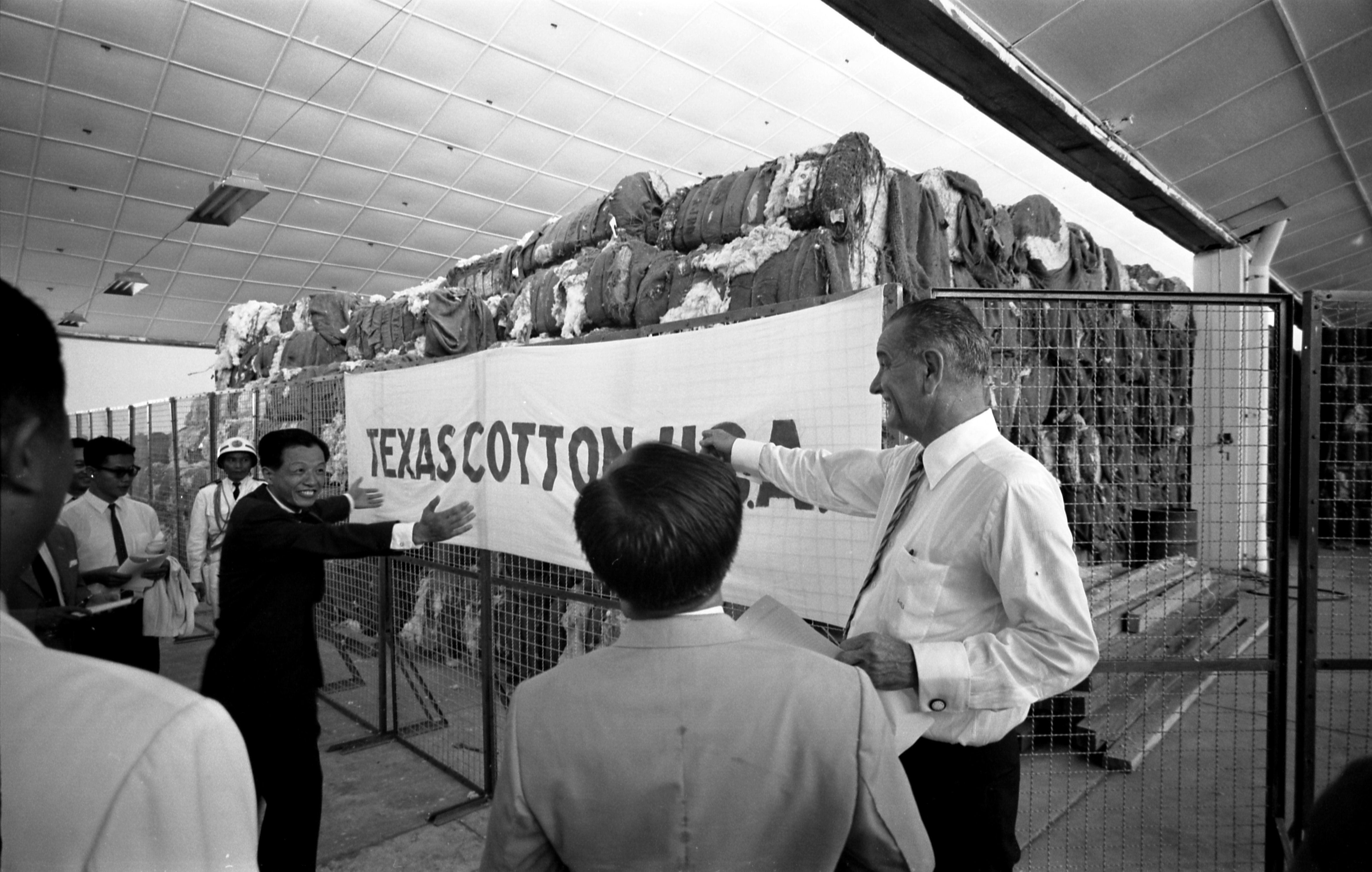 U.S. Vice President Lyndon B. Johnson in a textile mill with Vietnamese men standing in front of a large quantity of textiles with a "Texas Cotton U.S.A." banner.